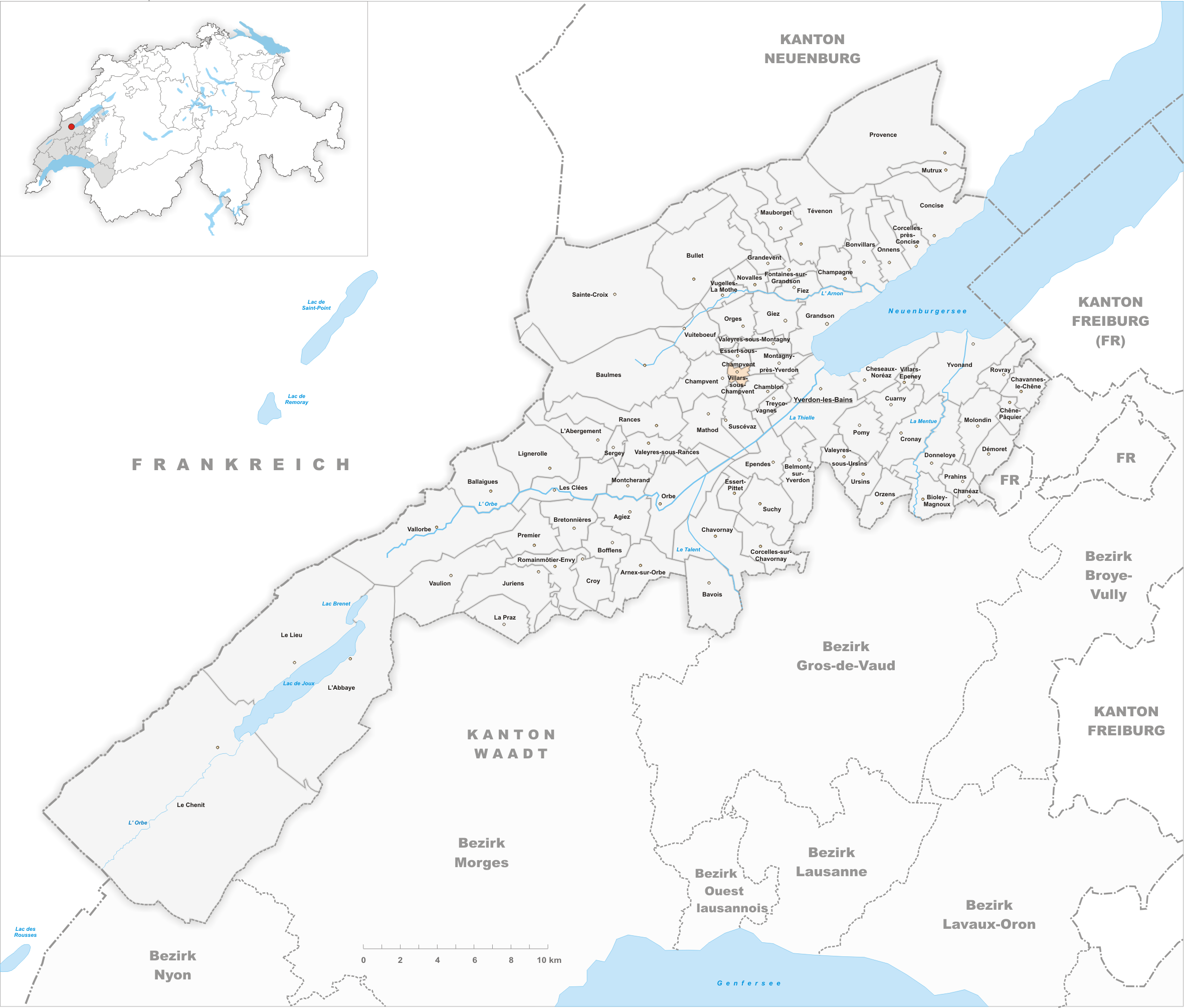 Municipality Villars-sous-Champvent